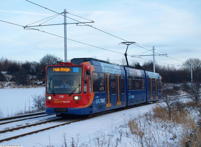 Stagecoach Supertram 114 travels through fields in Snowy Sheffield between Birley Lane and White Lane on December 23rd 2009. This stretch of track is not only outside Sheffield, but is actually inside the Derbyshire county boundary.